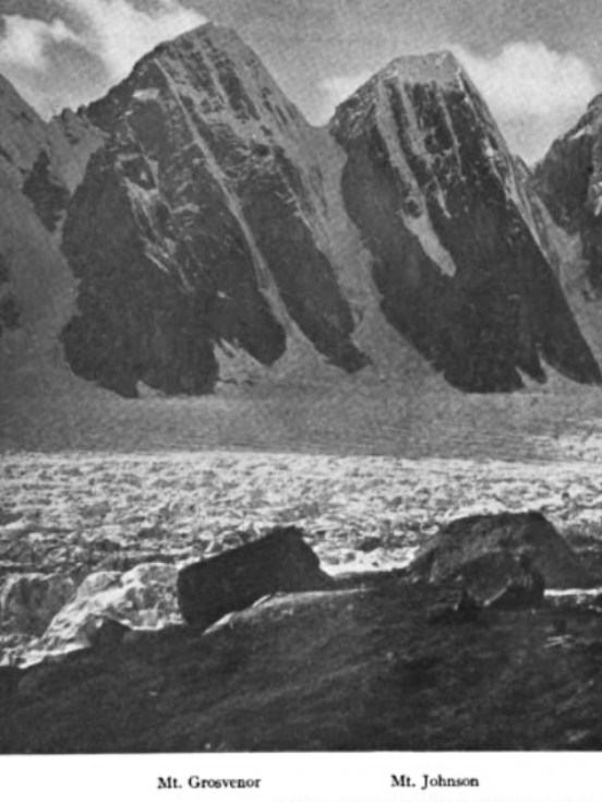 Mts Grosvenor and Johnson as appears in Frederick Cook's book "To the Top of the Continent", page 192. Circa 1908.